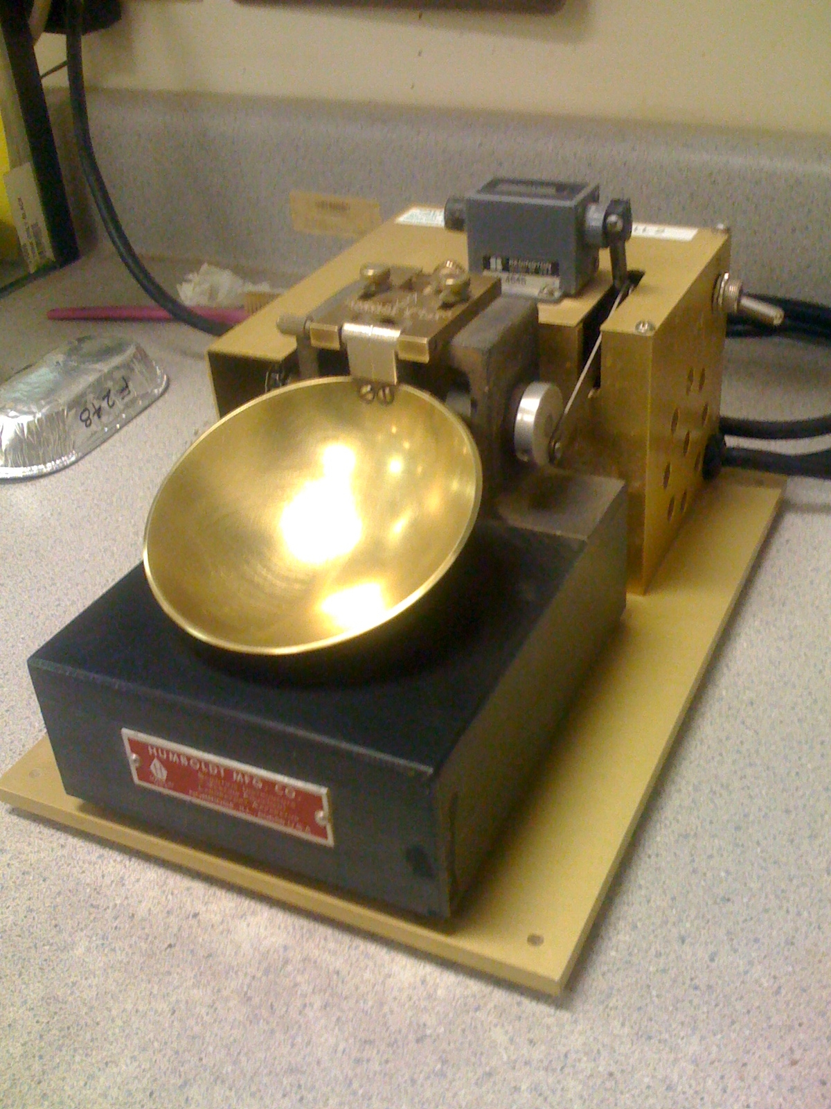 This is a tool in determining the liquid limit portion of the atterberg tests.